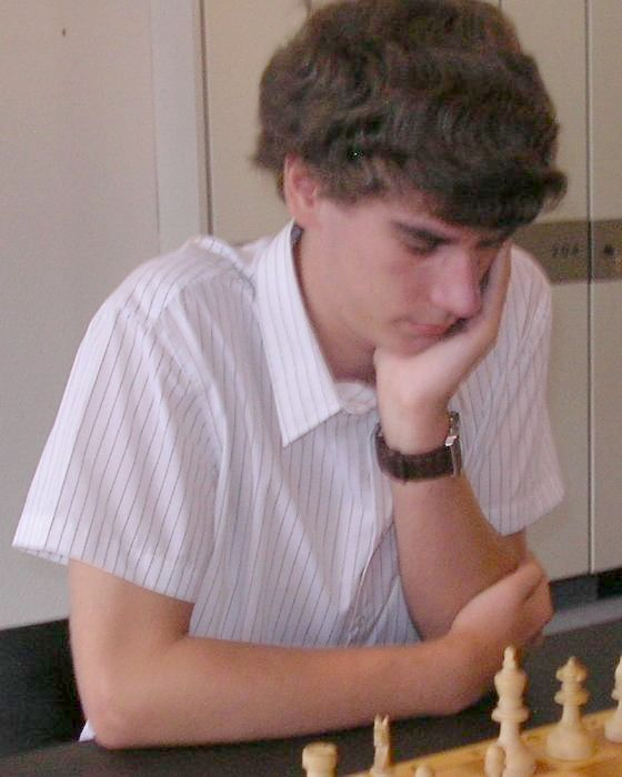 Patrick Zelbel, Dortmunder Schachtage 2010, Photographer Gerhard Hund.